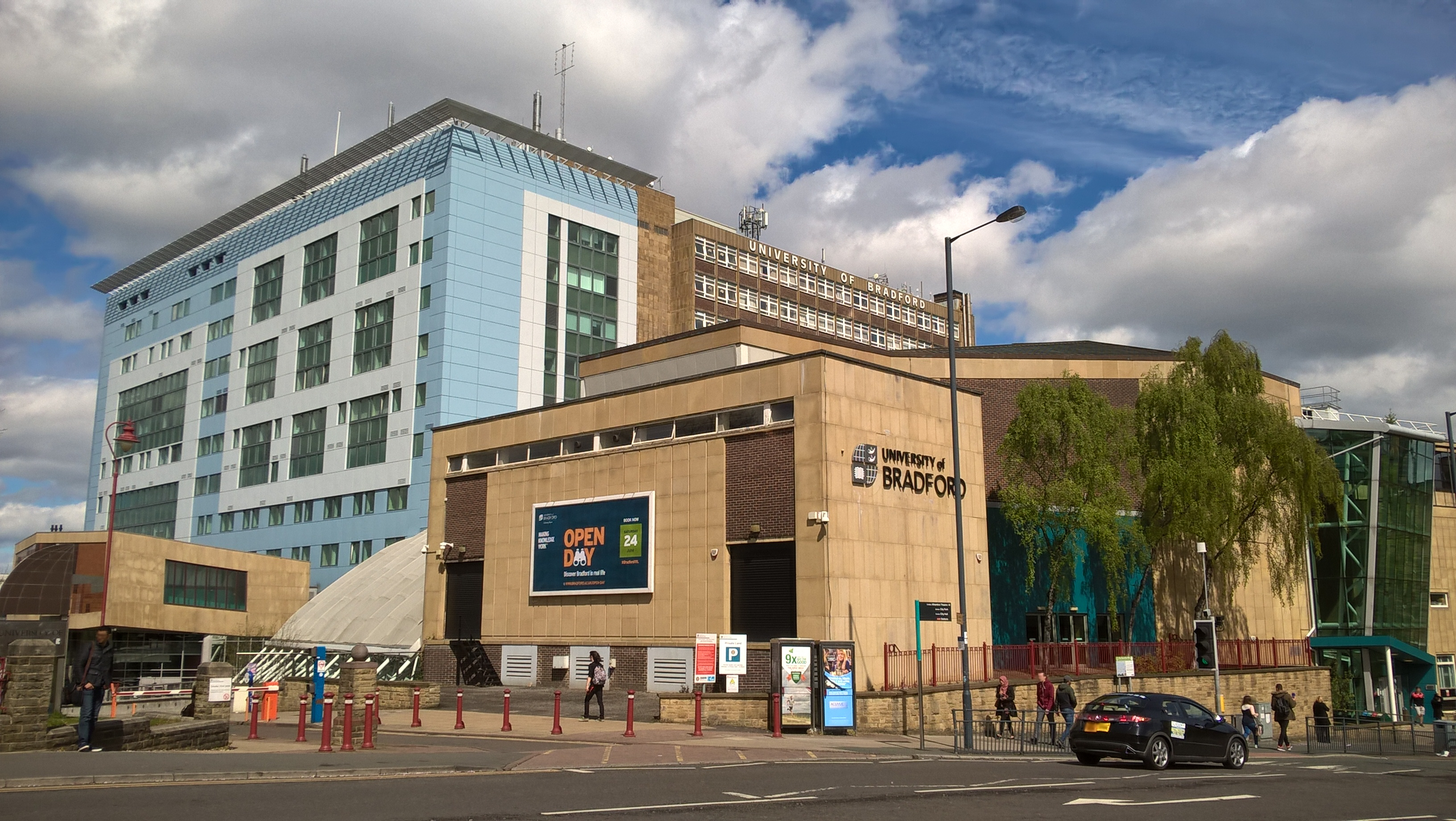 Richmond Building, University of Bradford, Great Horton Road, Bradford.